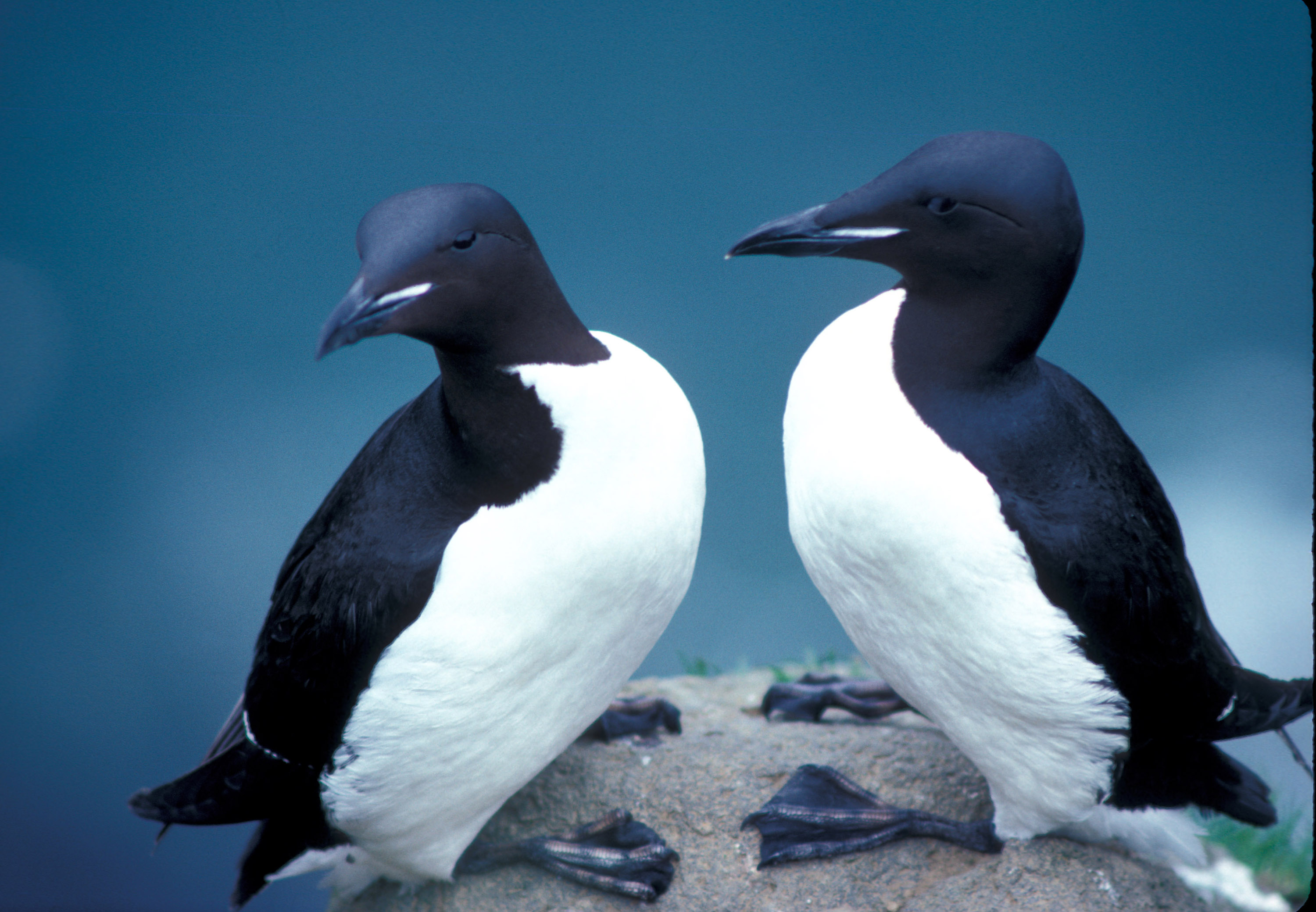 Thick-billed Murres (Uria lomvia) in Alaska refuge[1]